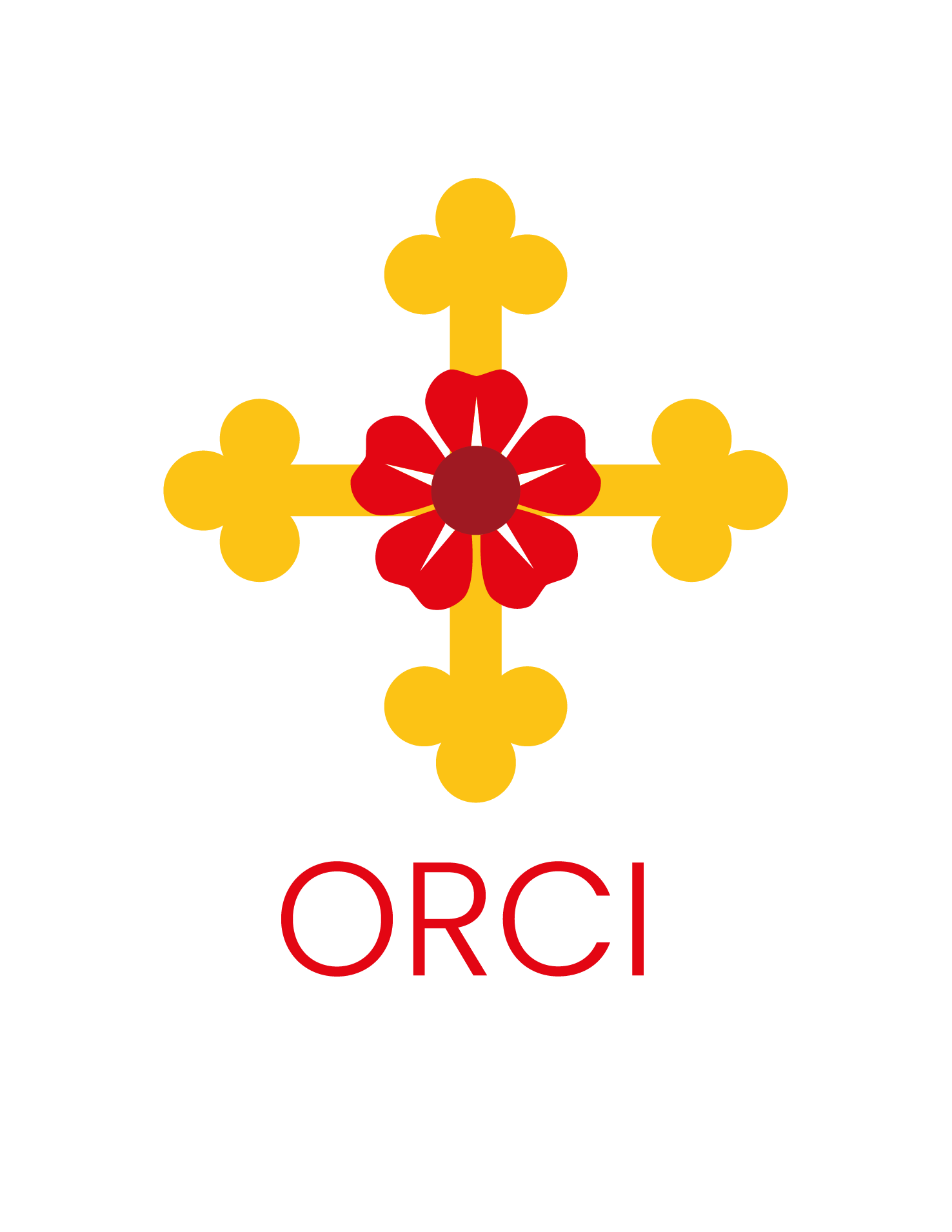 Rosicrucian ORCI